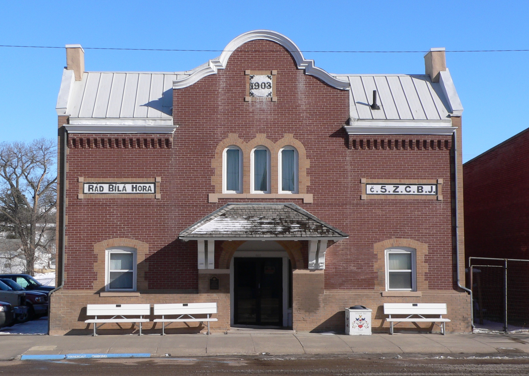 Z.C.B.J. Opera House in Verdigre, Nebraska; seen from the west. The building was constructed in 1903, and is listed in the National Register of Historic Places. It continues to serve as a community auditorium.